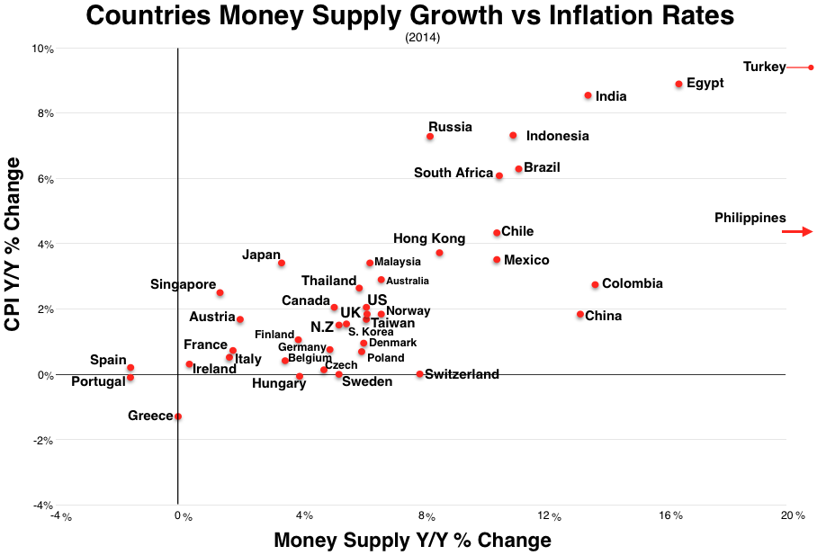 Money supply growth vs. inflation rates (2014).